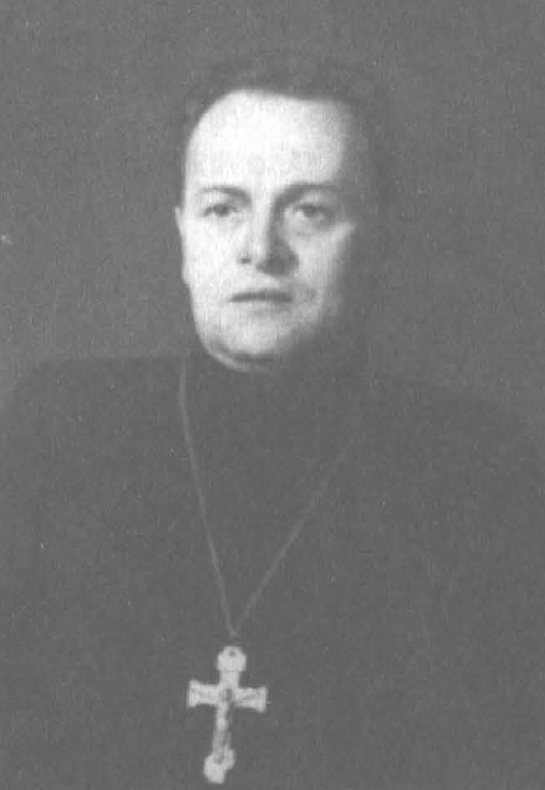 father Mykhail Fedorovych Karachkivsky